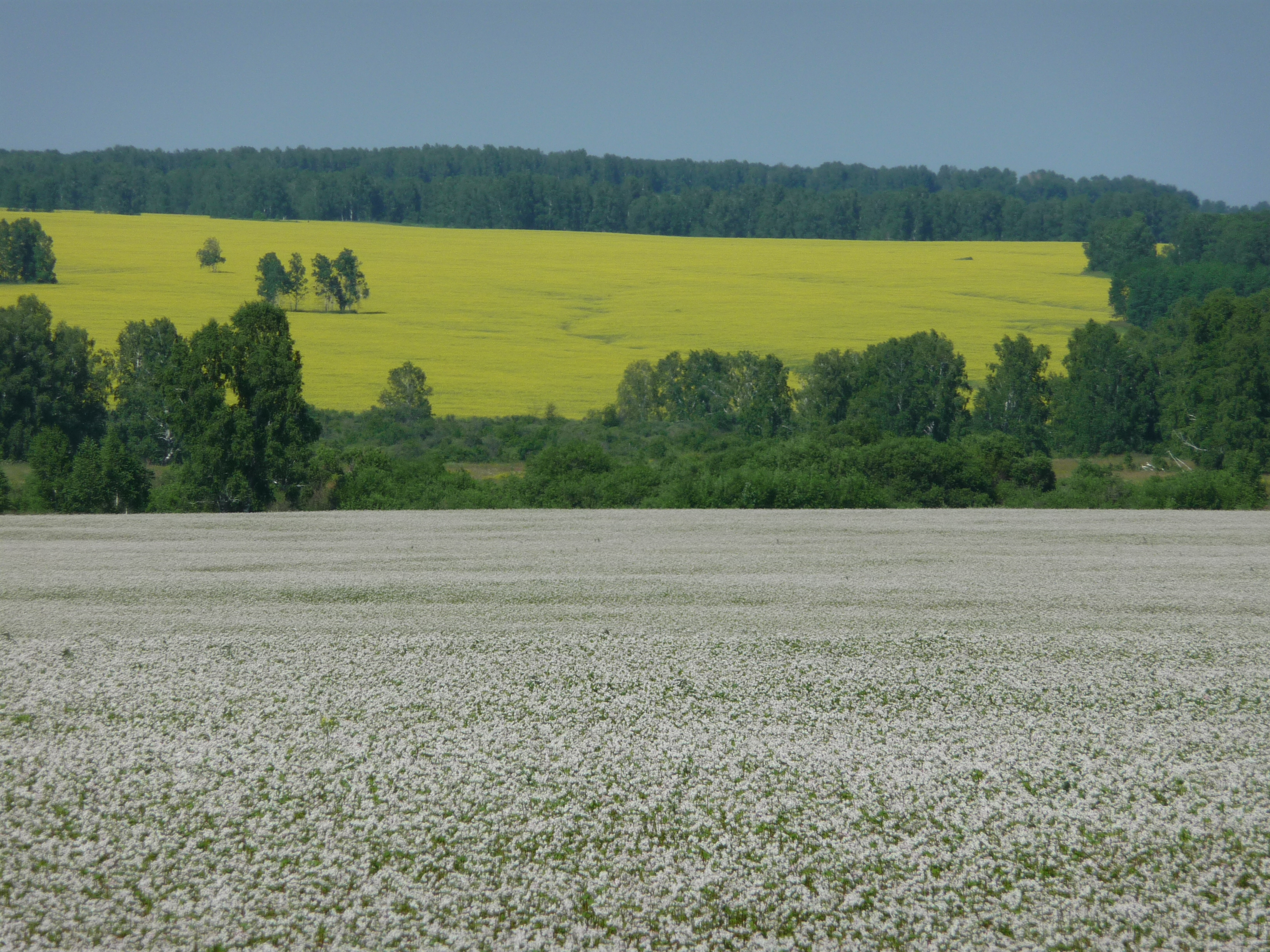 The photo was taken in the Novosibirsk region in July in the midst of crop blossoming. The yellow field in the photo is made of sweet clover (Melilotus), Legume Family, used as food for animals; white is Buckwheat (Fagopyrum), Family Polygonaceae, used as a cereal crop. Both plants are honey plants.